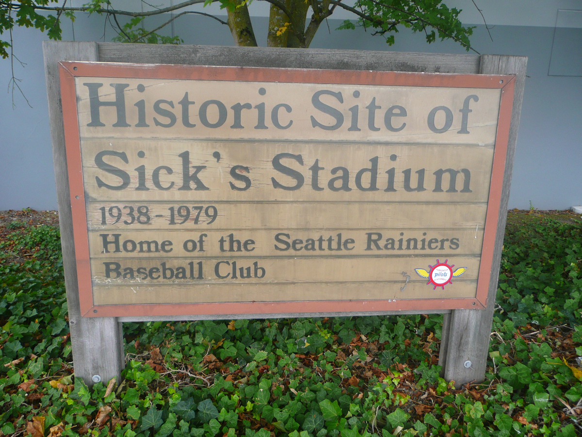 Sign marking the site of Sick's Stadium, former home of the Seattle Pilots. The sign is situated in front of a Lowe's home improvement store, which is where most of the stadium sat.